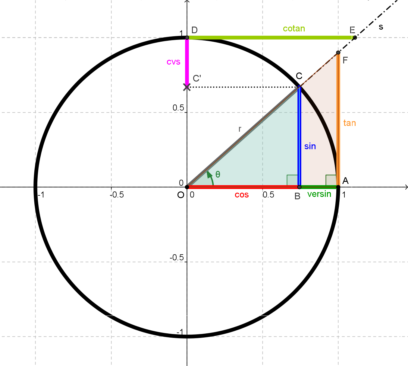 trigonometric functions: sine, cosine, tangent, cotangent